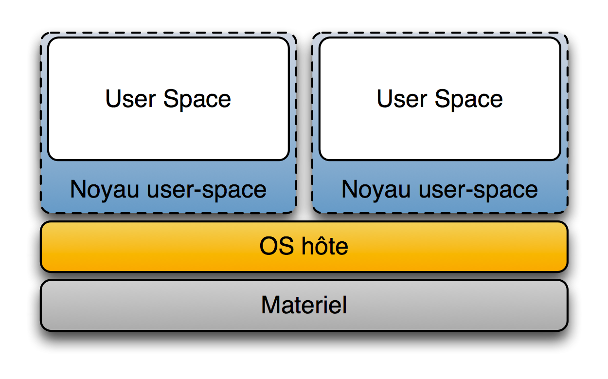 Virtualization, architecture of an Kernel in user space virtualizator